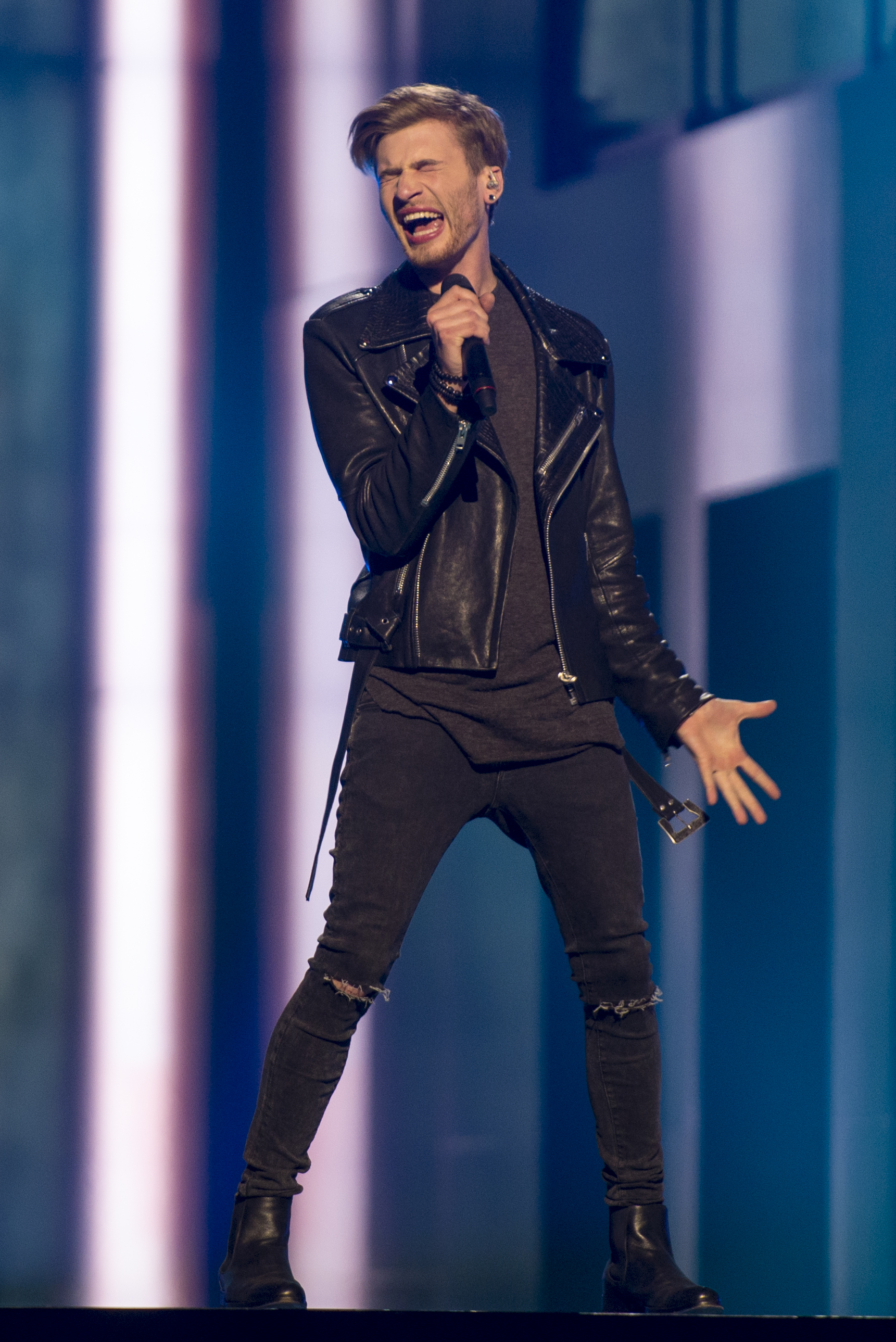 Justs representing Latvia with the song "Heartbeat" during a rehearsal before the second semi final of the Eurovision Song Contest 2016 in Stockholm. (Help translate this text)